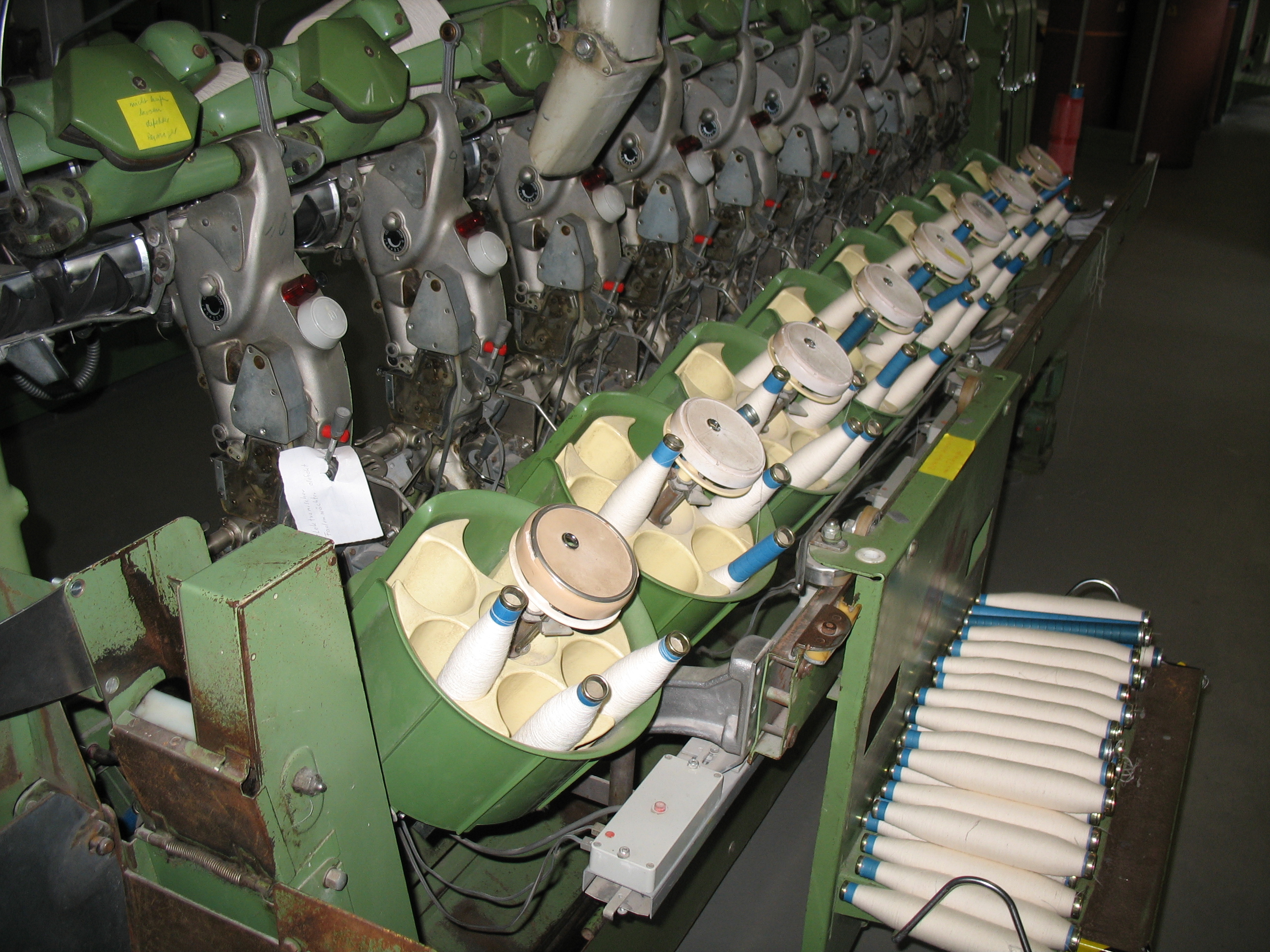 Semi-automatic winding machine (year of constr. 1975) in the City Museum at Nordhorn, Germany